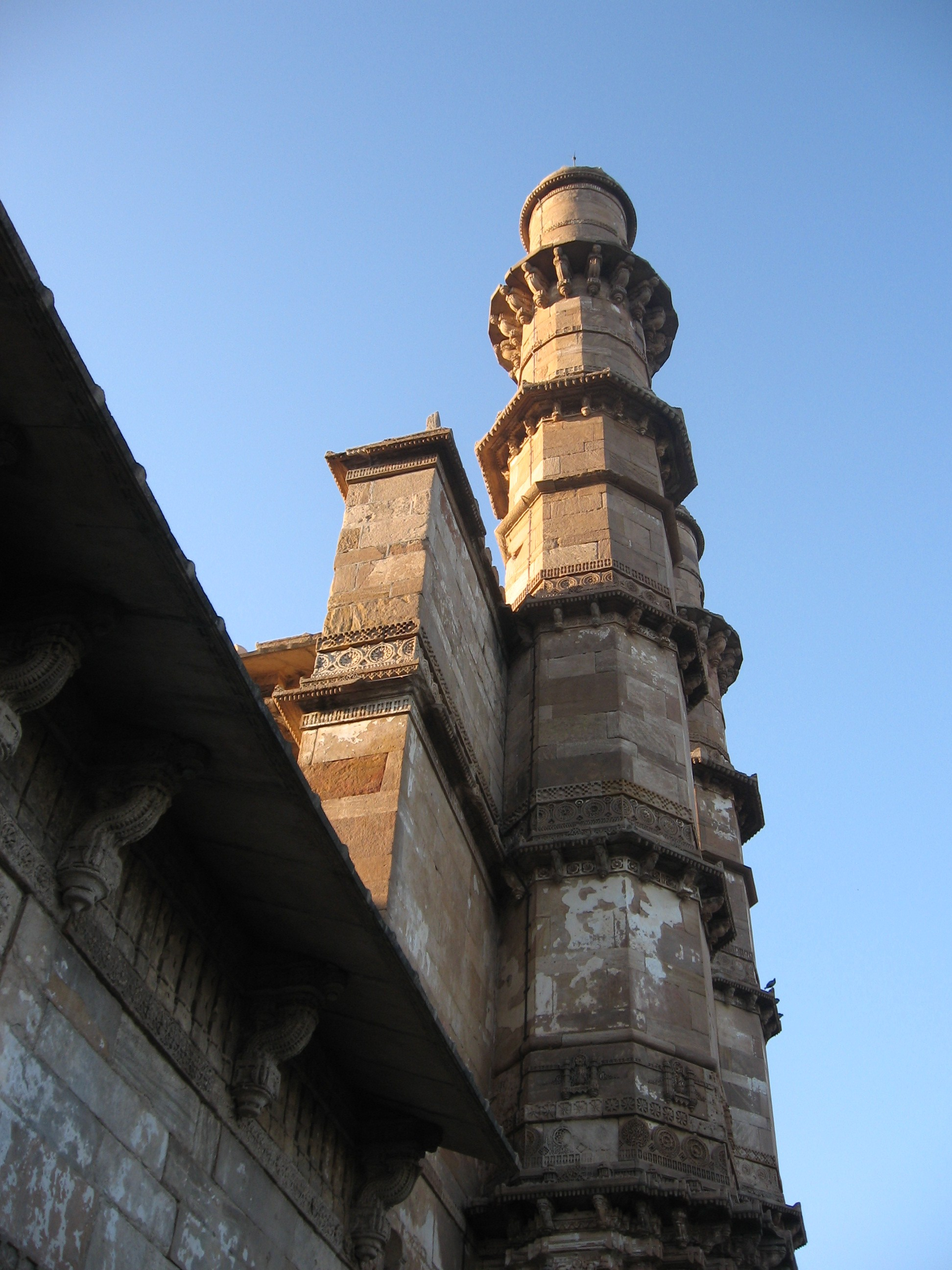 Jama masjid minarets, Champaner, Gujarat